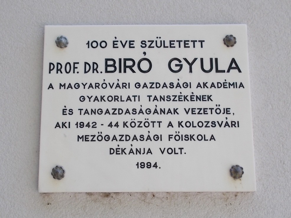 Széchenyi István University, Faculty of Agricultural and Food Science, 'B' building, plaque on northwest facade. - Outer Castle, Magyaróvár neighborhood, Mosonmagyaróvár, Győr-Moson-Sopron County, Hungary.